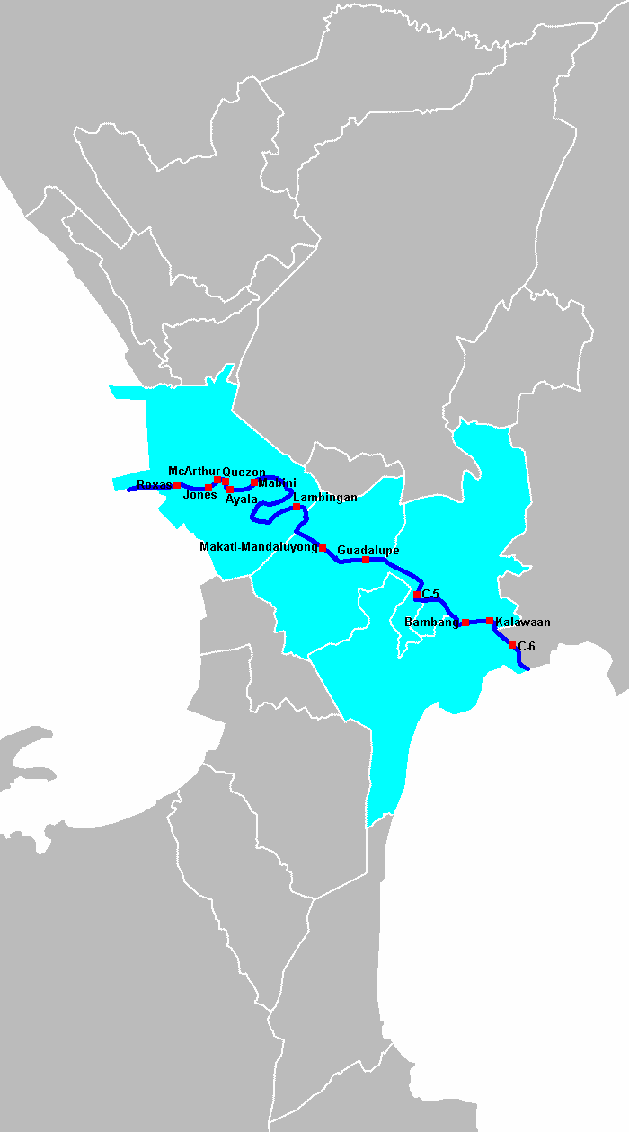 Map of the Pasig River.